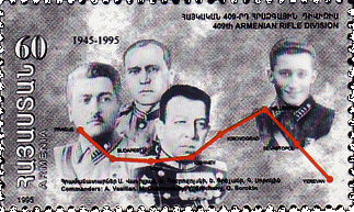 Commanders: A.Vasilian, M.Dobrovolsky, Y.Grechany and G.Sorokin 409th rifle division. Stamp of Armenia